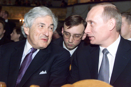 SAINT PETERSBURG. With President of the World Bank James Wolfensohn at the opening of the Mariinsky Theatre's 218th season.